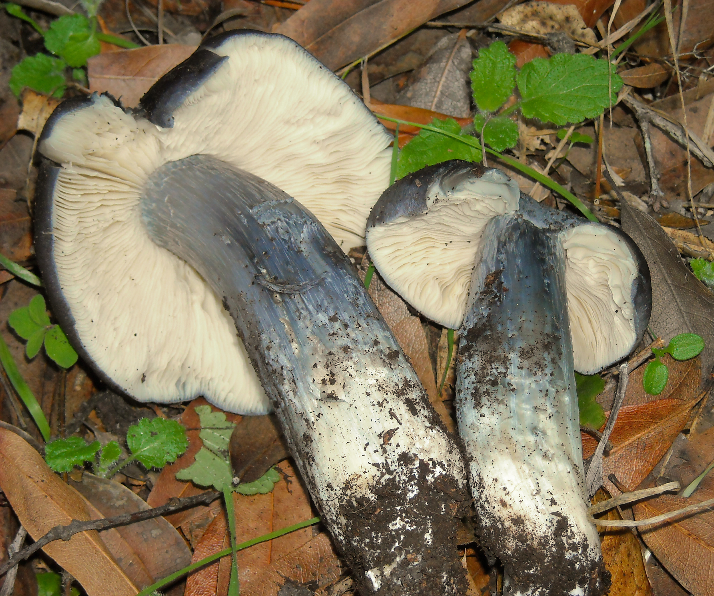 Entoloma bloxamii (Berk.) Sacc. Location: Bolinas Ridge, Marin Co., California, USA Observation Notes: host is oaks.see picks For more information about this, see the observation page at Mushroom Observer.